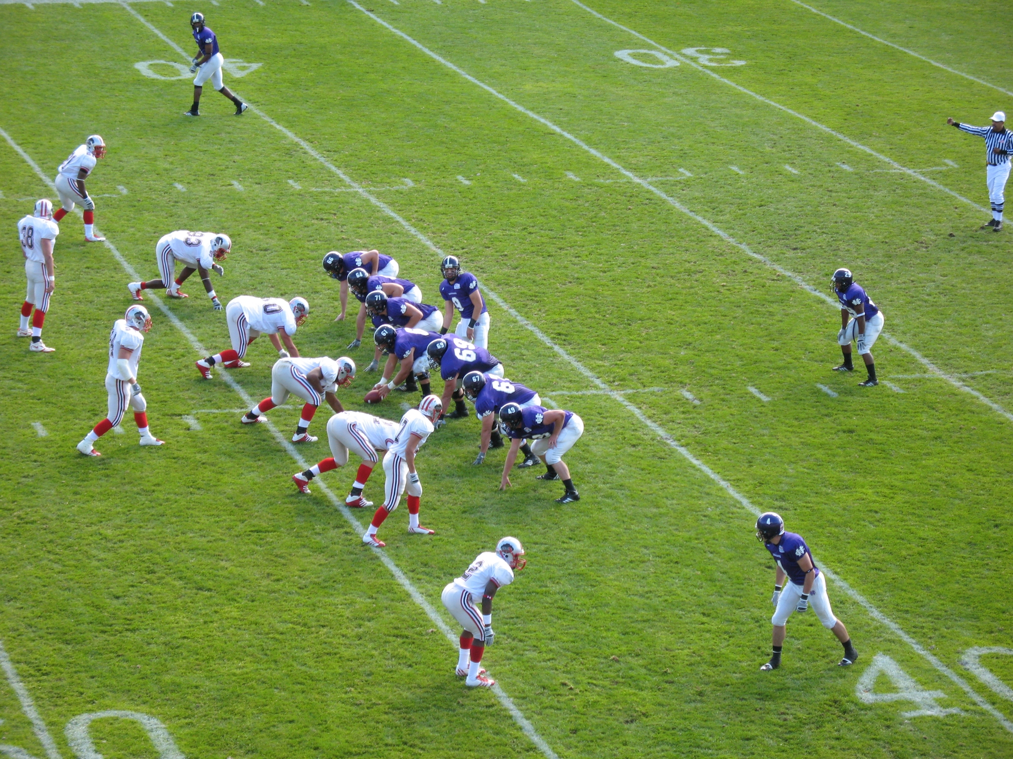 Holy Cross playing Brown in a game of footballHoly Cross vs. Brown